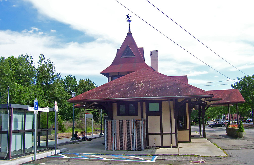 Photographed by Daniel Case